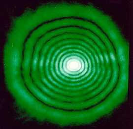 Concentric Laser Diffraction - CILAS